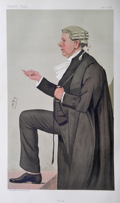 Statesmen No.526: Caricature of Mr Frank Lockwood QC MP. Caption reads: "York"